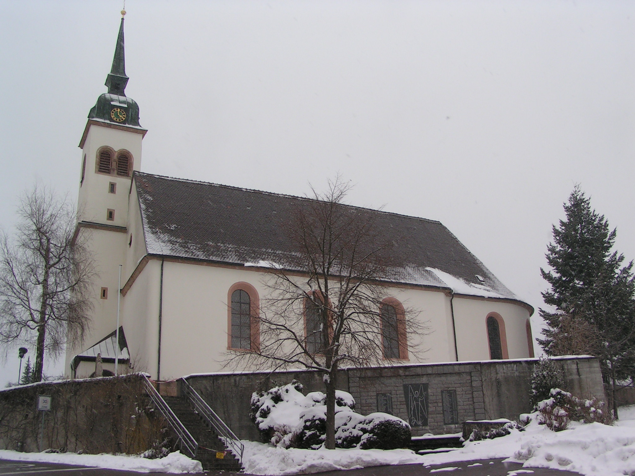 Church of Murg-Haenner, Germany